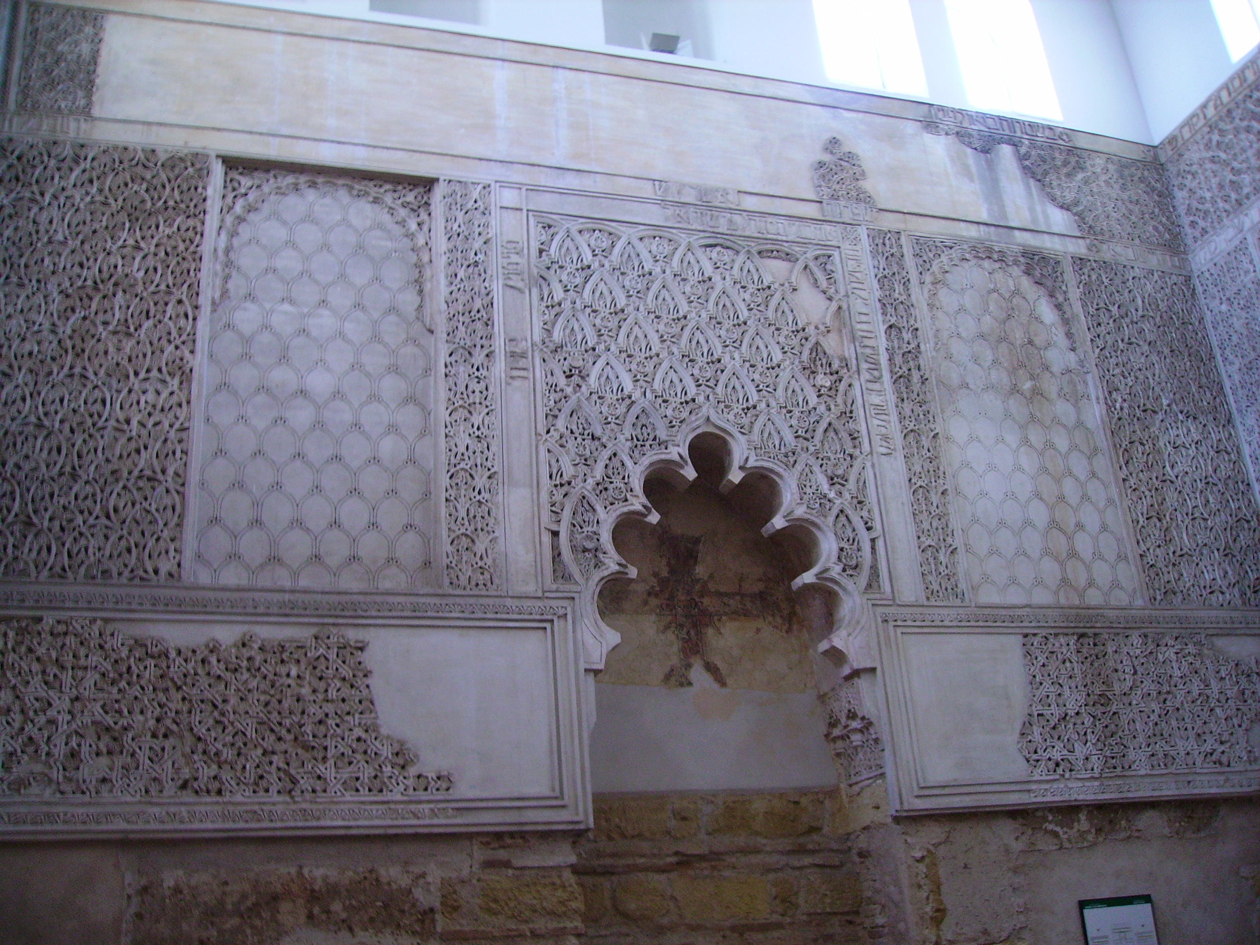 West wall of the Synagogue of Córdoba, en Córdoba (Spain). On this wall there is an ogival arch and the inscription that frames it on the top, from right to left, seems to refer to the Song of Songs (4,4): "I am builded like tower of the Messiah, Lord...". On the right side there are some Hebrew letters whose meaning has not been deciphered. On the left side there are fragments of three words.